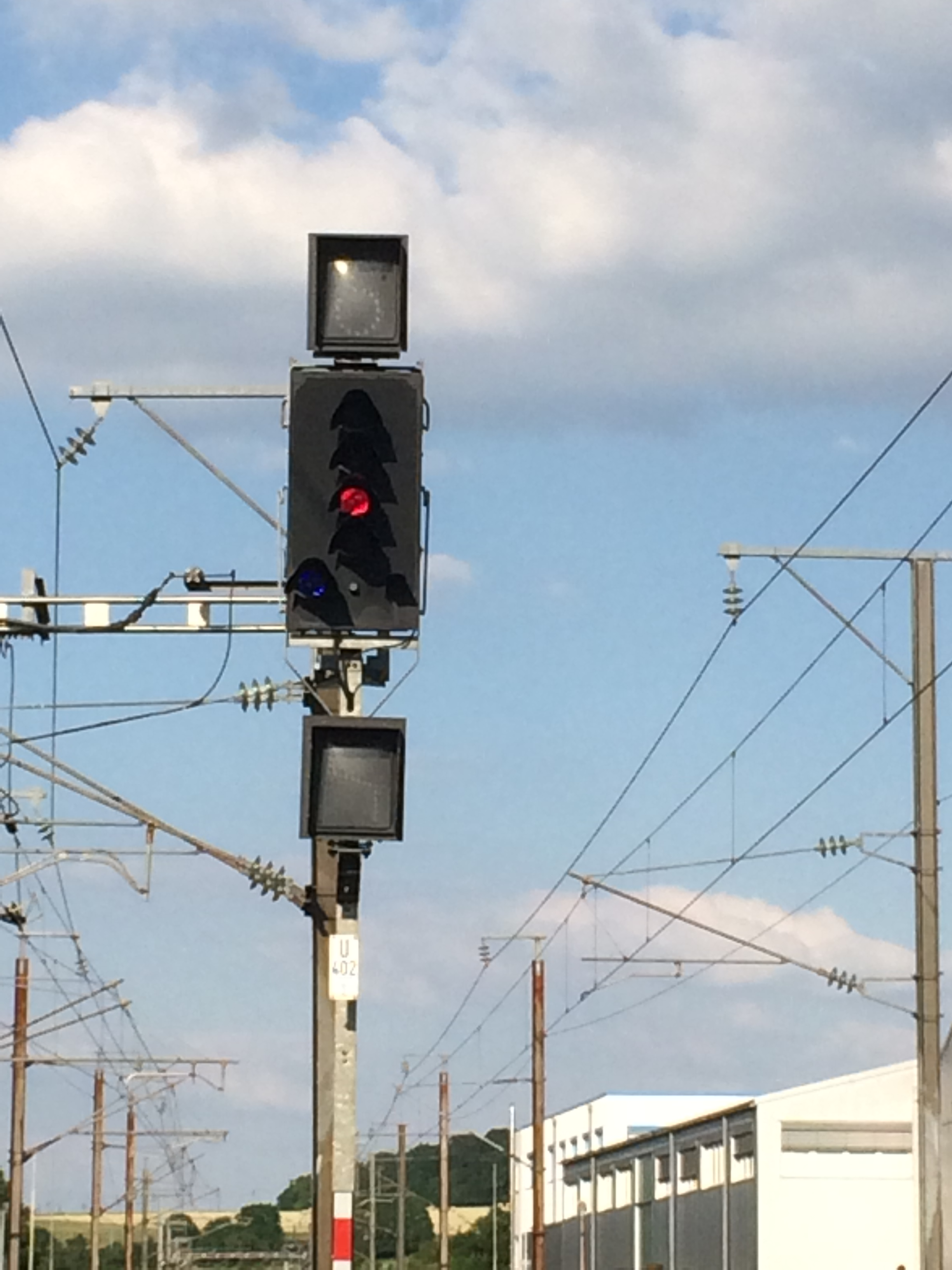 Luxemburgisches Hauptsignal in Stellung SFP 1.